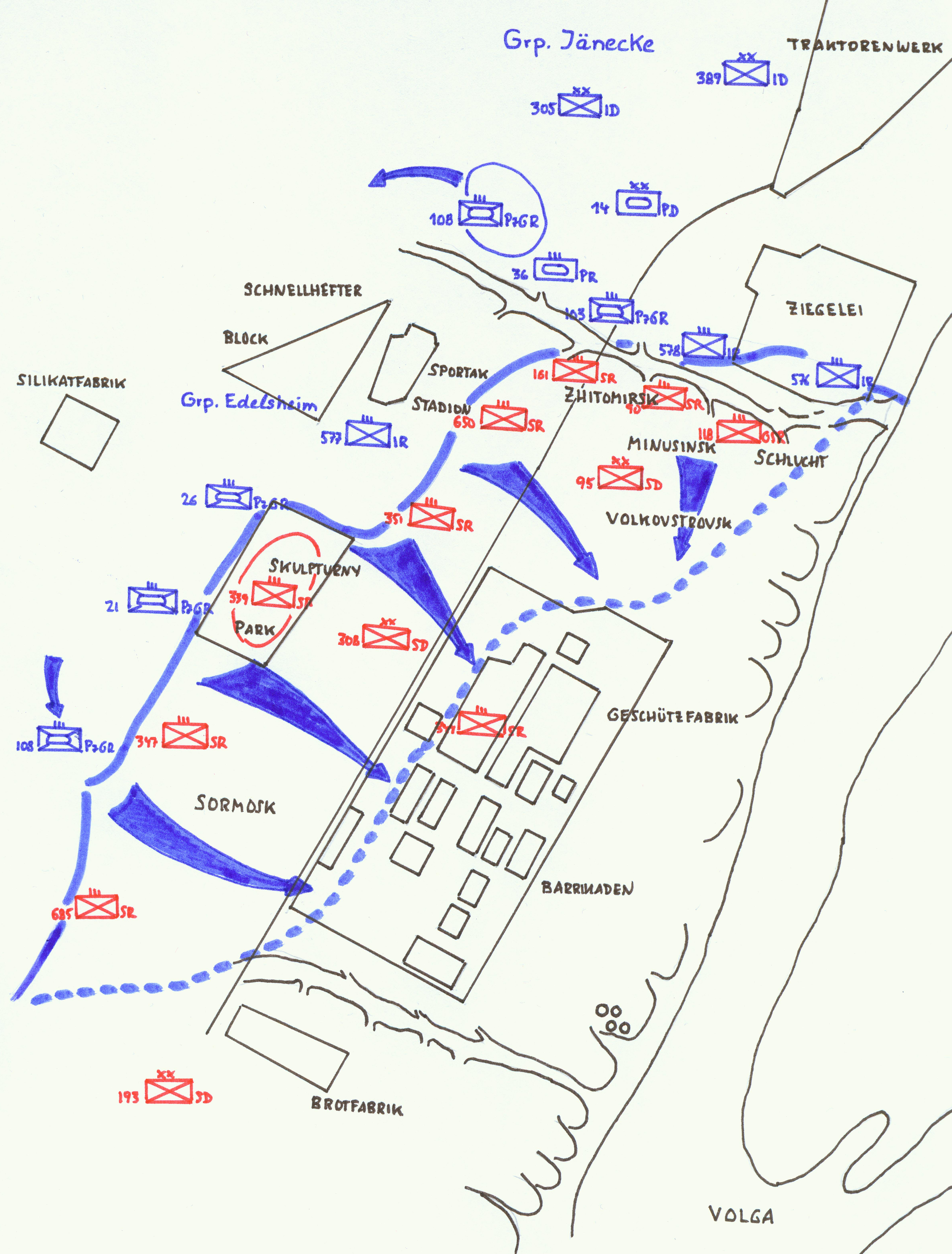 sketch drawn-outline according to Glantz